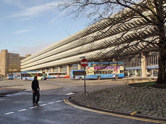 Preston Bus Station Built in 1968-1969, it's an excellent example of "Brutalist Architecture". Designed by Keith Ingham and having a capacity for 80 double-decker buses, it is said to be the second largest in western Europe. The building would be demolished under the Tithebarn redevelopment plan.